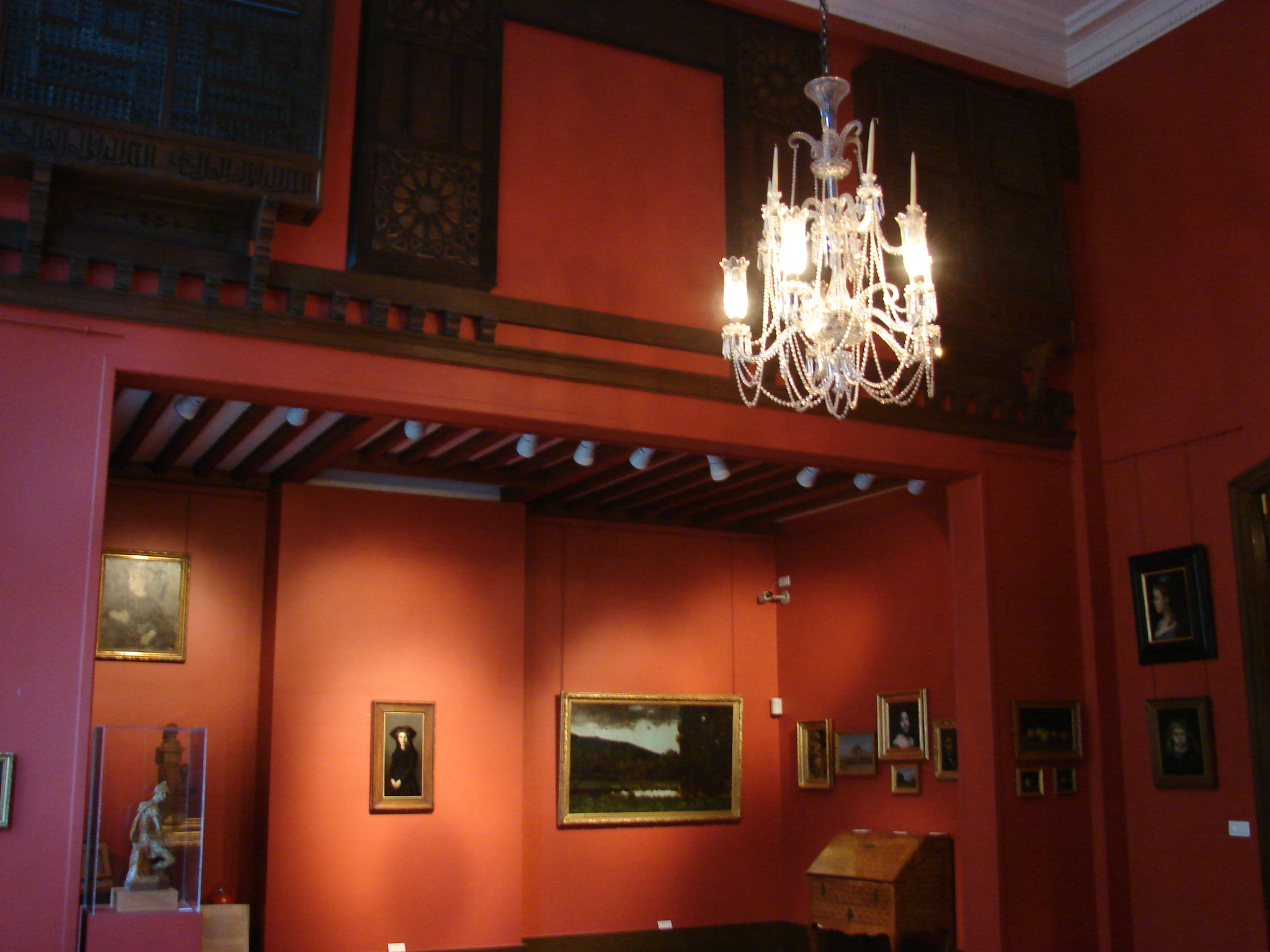 The large red-walled studio in the Henner museum (Paris)